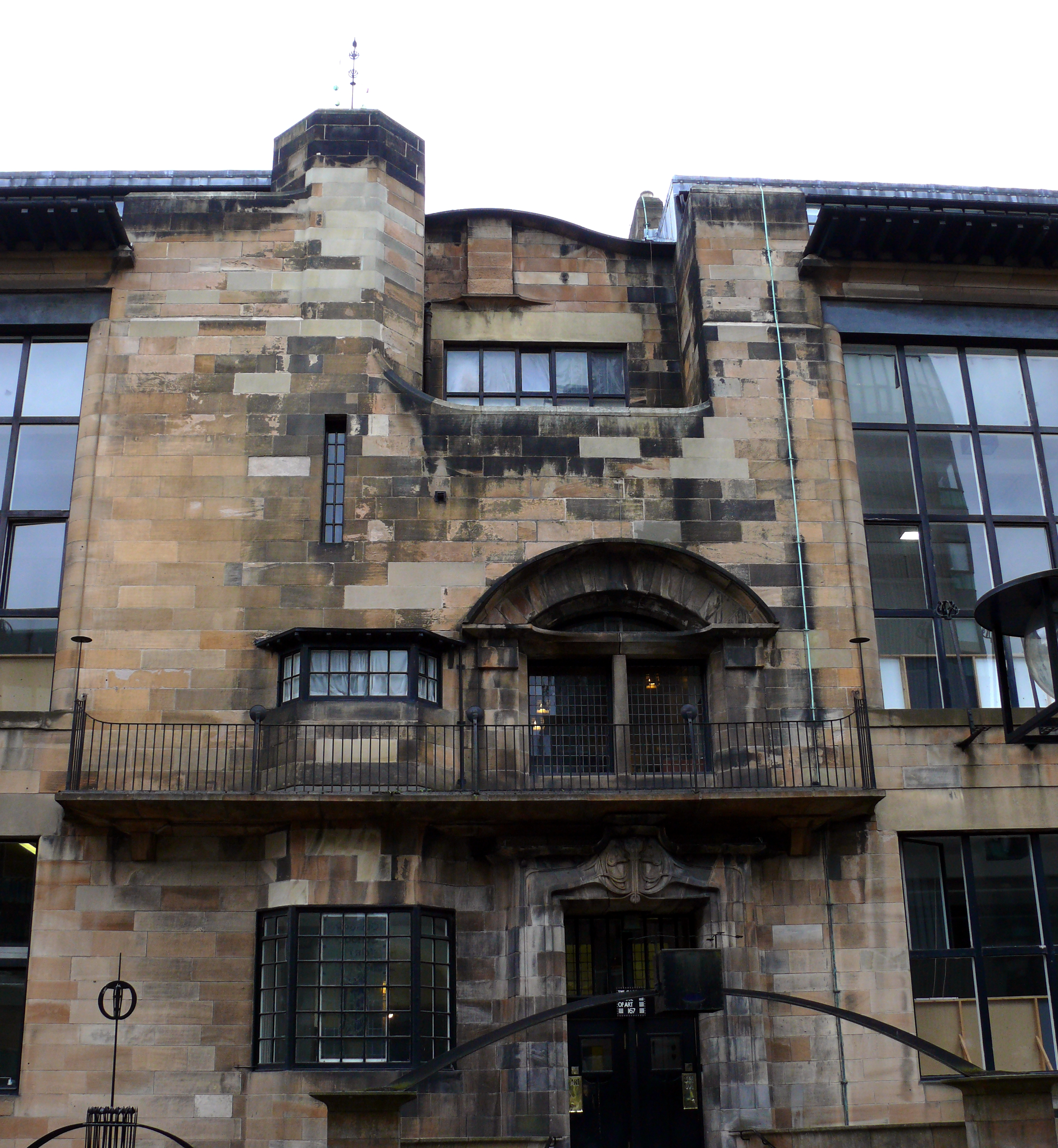 The front (north) facade of Charles Rennie Mackintosh's Glasgow School of Art on Renfrew Street, Garnethill in Glasgow, Scotland.